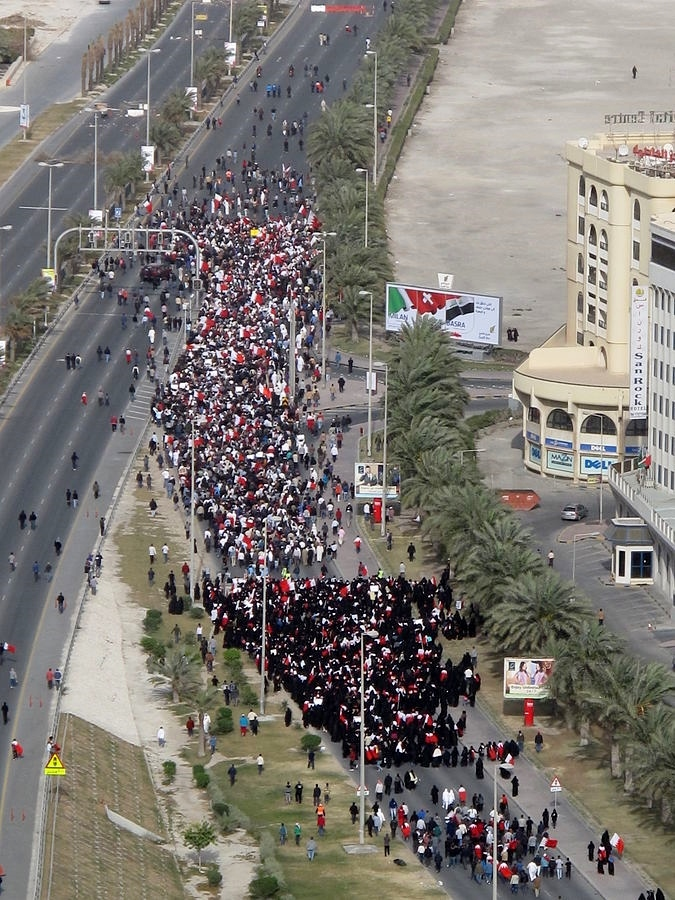 Protest against the Saudi intervention in Bahrain